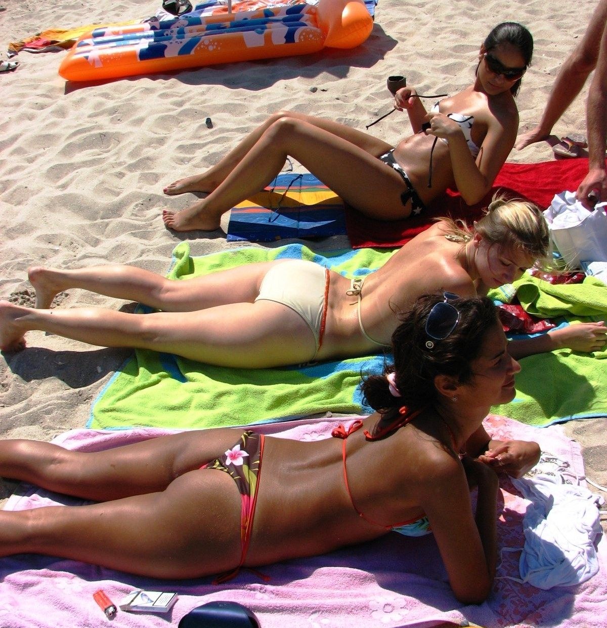 Young women enjoy the sun at the beach.